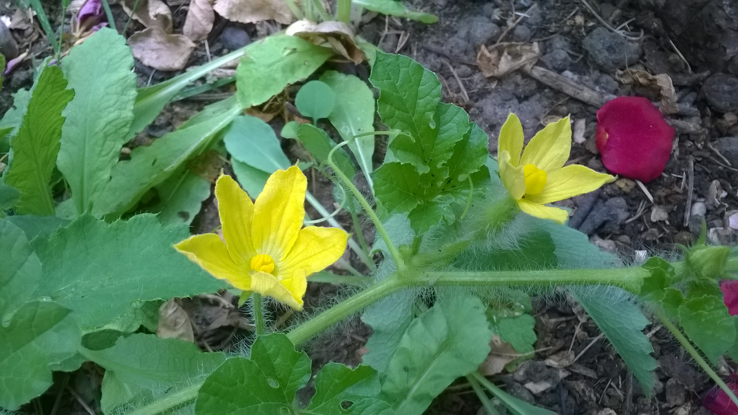 Male (left) and female (right) flowers of Citrullus lanatus var. citroides. The plant featured in this picture is growing out of a tight container, which might cause leaves and flowers to be smaller than typical.